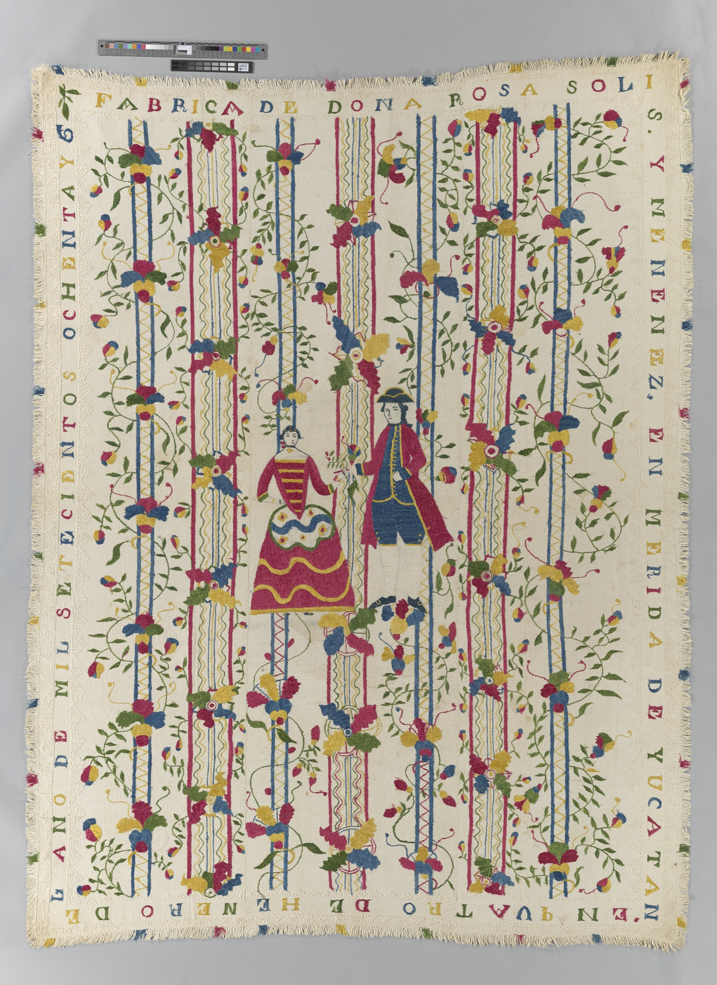 Mexican; Coverlet; Textiles